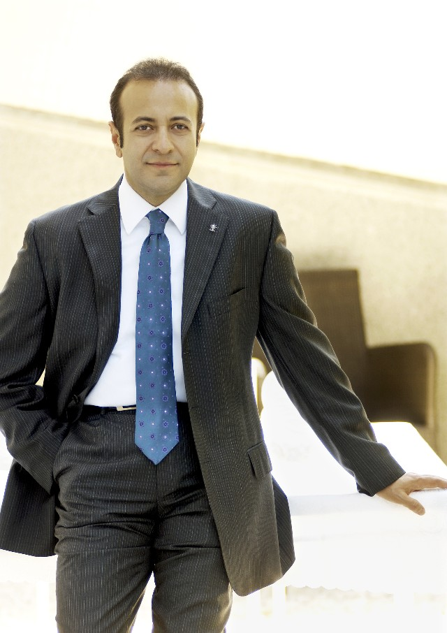 Photo of Egemen Bagis, Turkish Minister for EU Affairs and Chief Negotiator